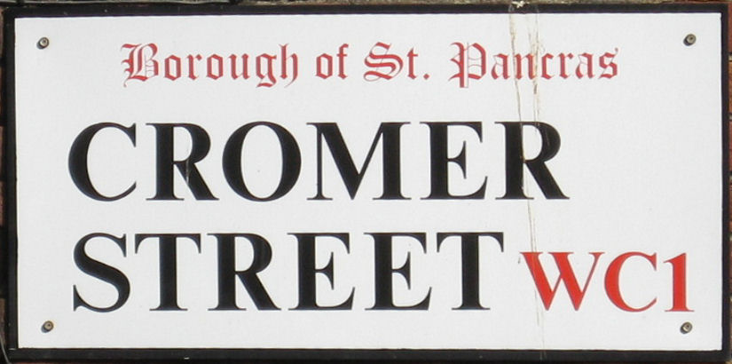 Cromer Street sign, Camden, London WC1, dating from the time when it was in the borough of St Pancras